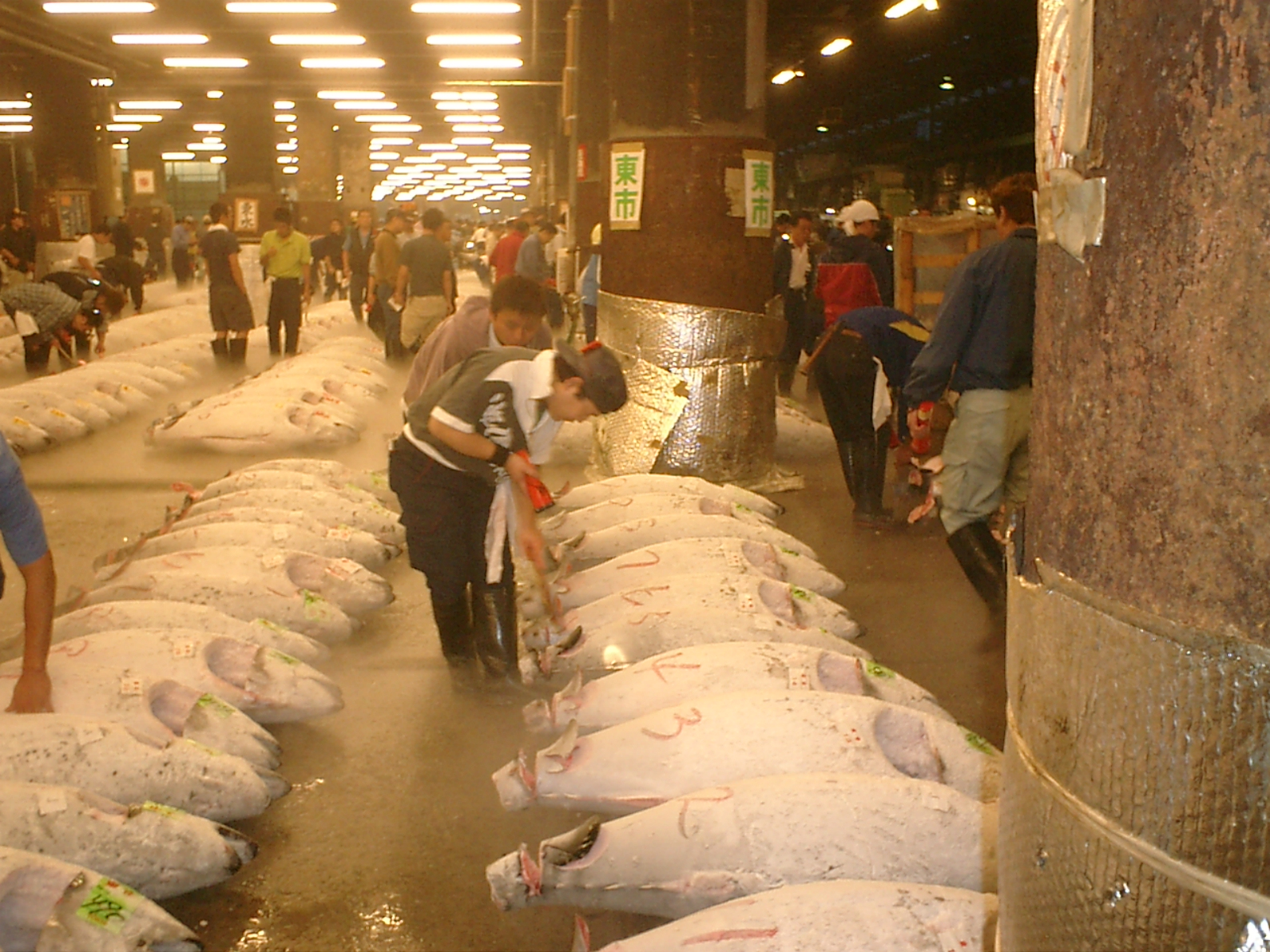 Tsukiji fish market in Tokyo, Japan